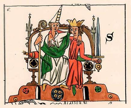 Ideal distribution of power depicted in the Heidelberger Sachsenspiegel.